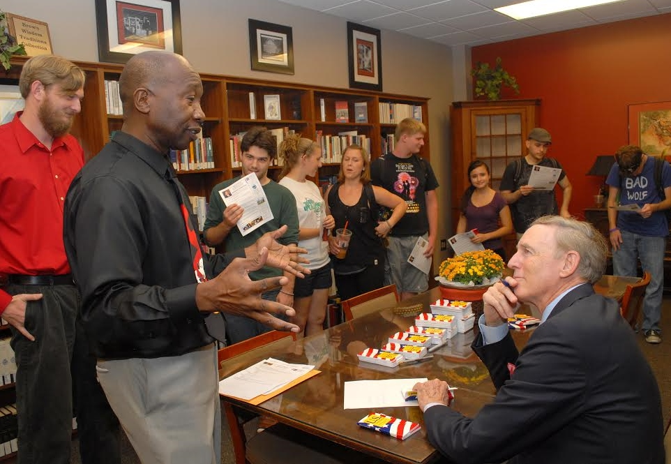 Stearns meets faculty and students